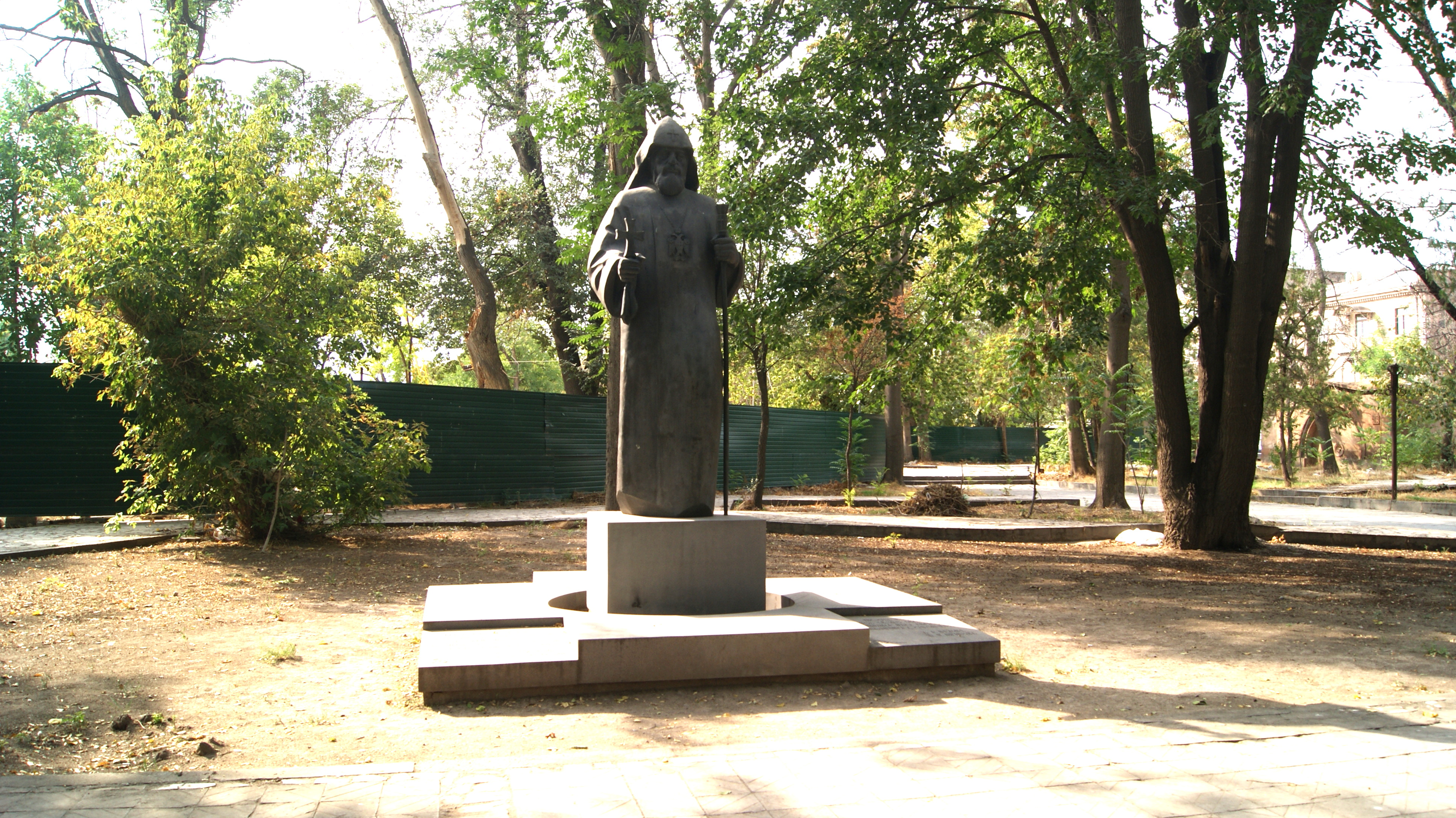 Վազգեն Առաջին կաթողիկոսի հուշարձան, Վաղարշապատ